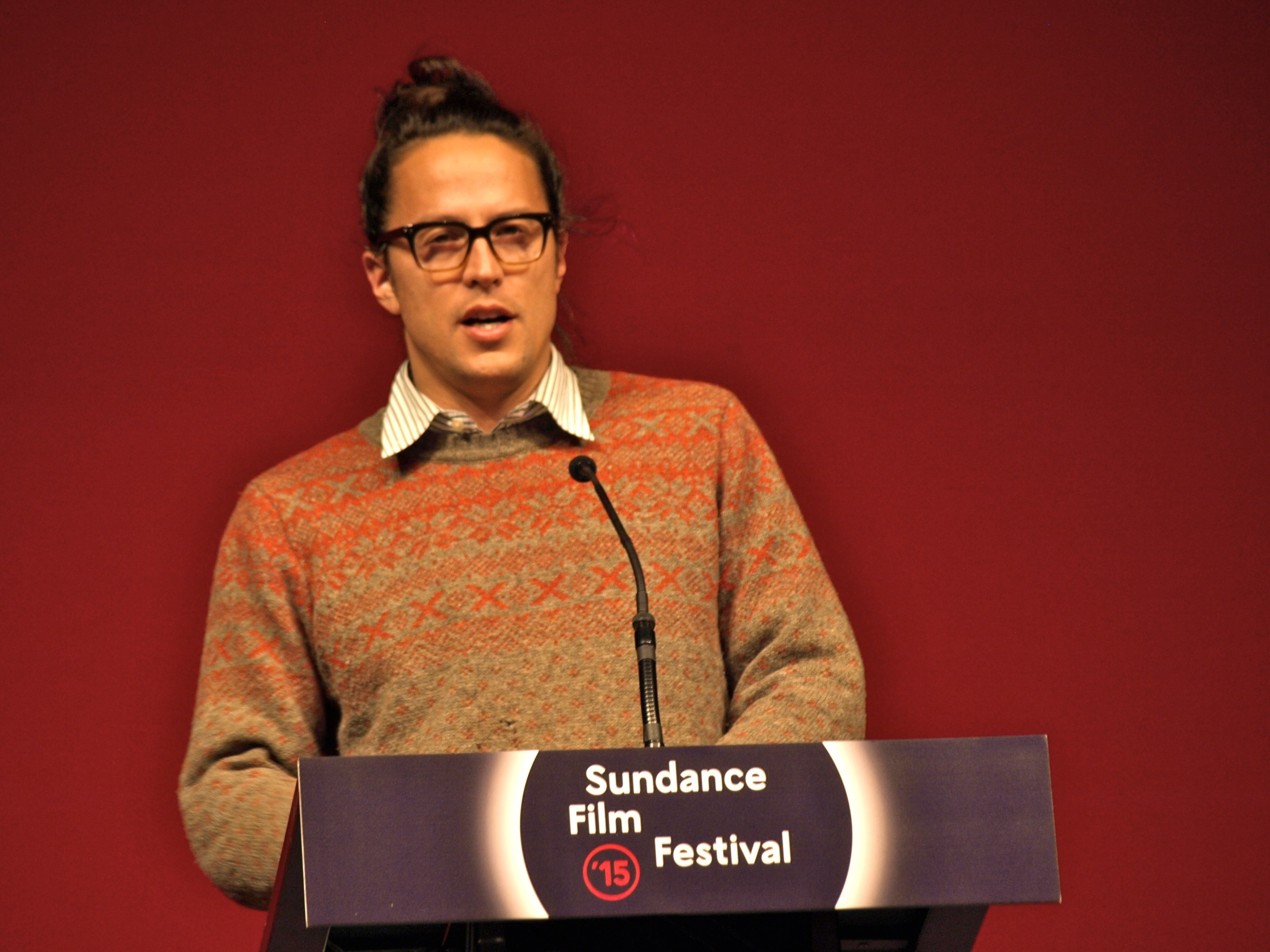 Cary Fukunaga at Sundance 2015, Awards Ceremony